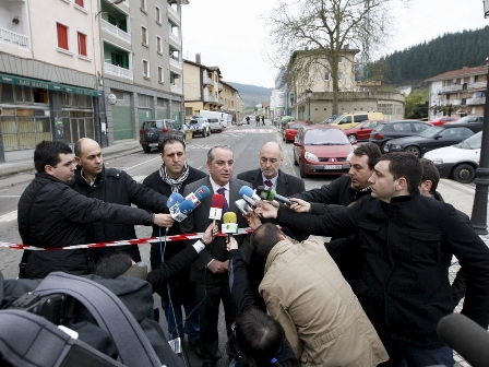 Bomb blast in Lazkao, Gipuzkoa, Spain